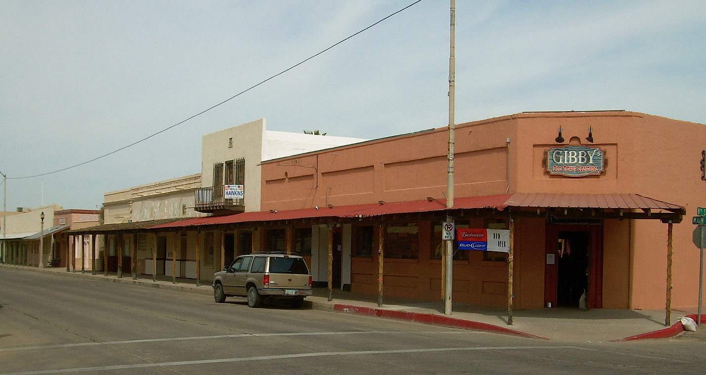 Willjay, taken by me. Adobe commercial buildings. Downtown Florence, Arizona. 2008.